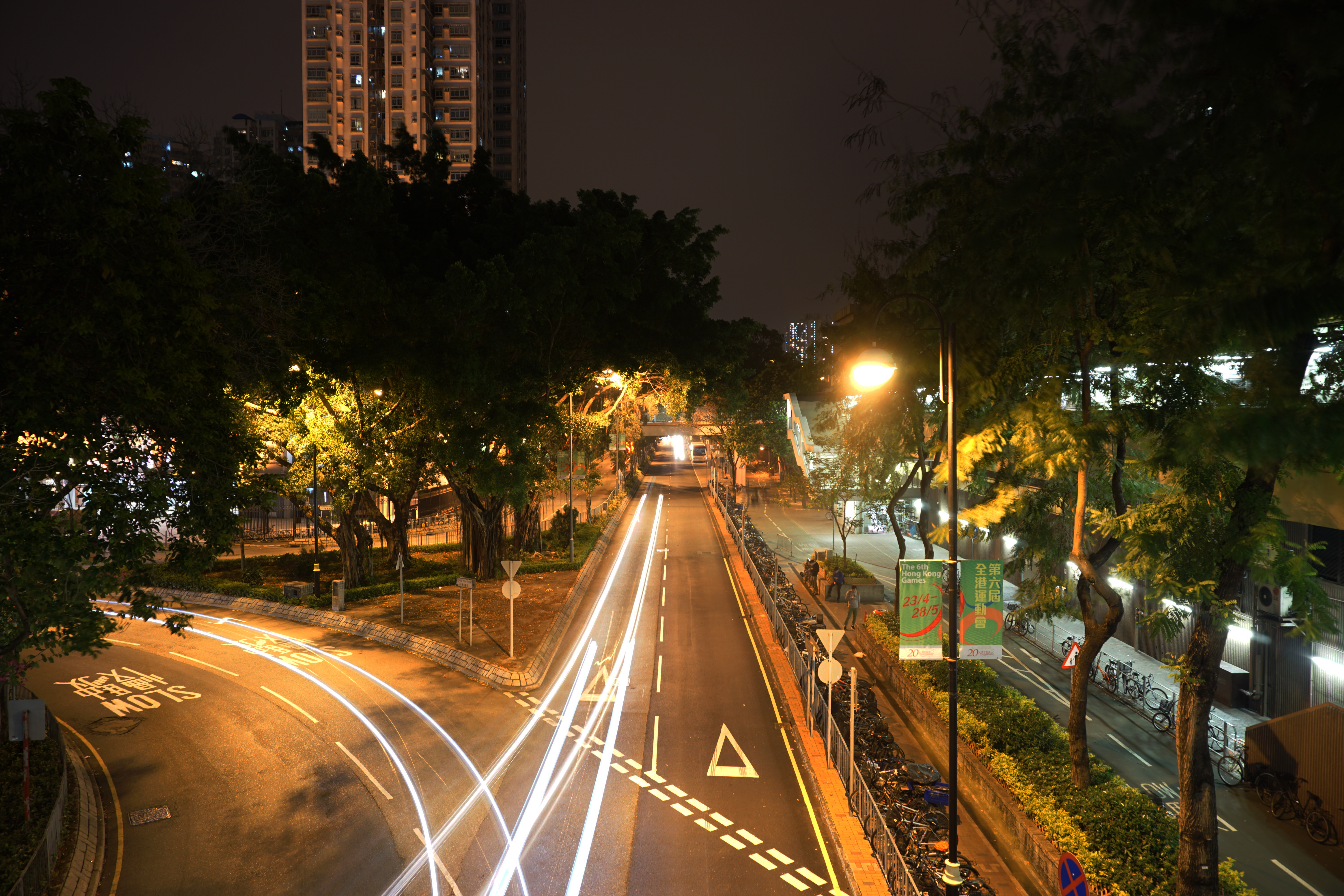 San Wan Road in Sheung Shui, Hong Kong.